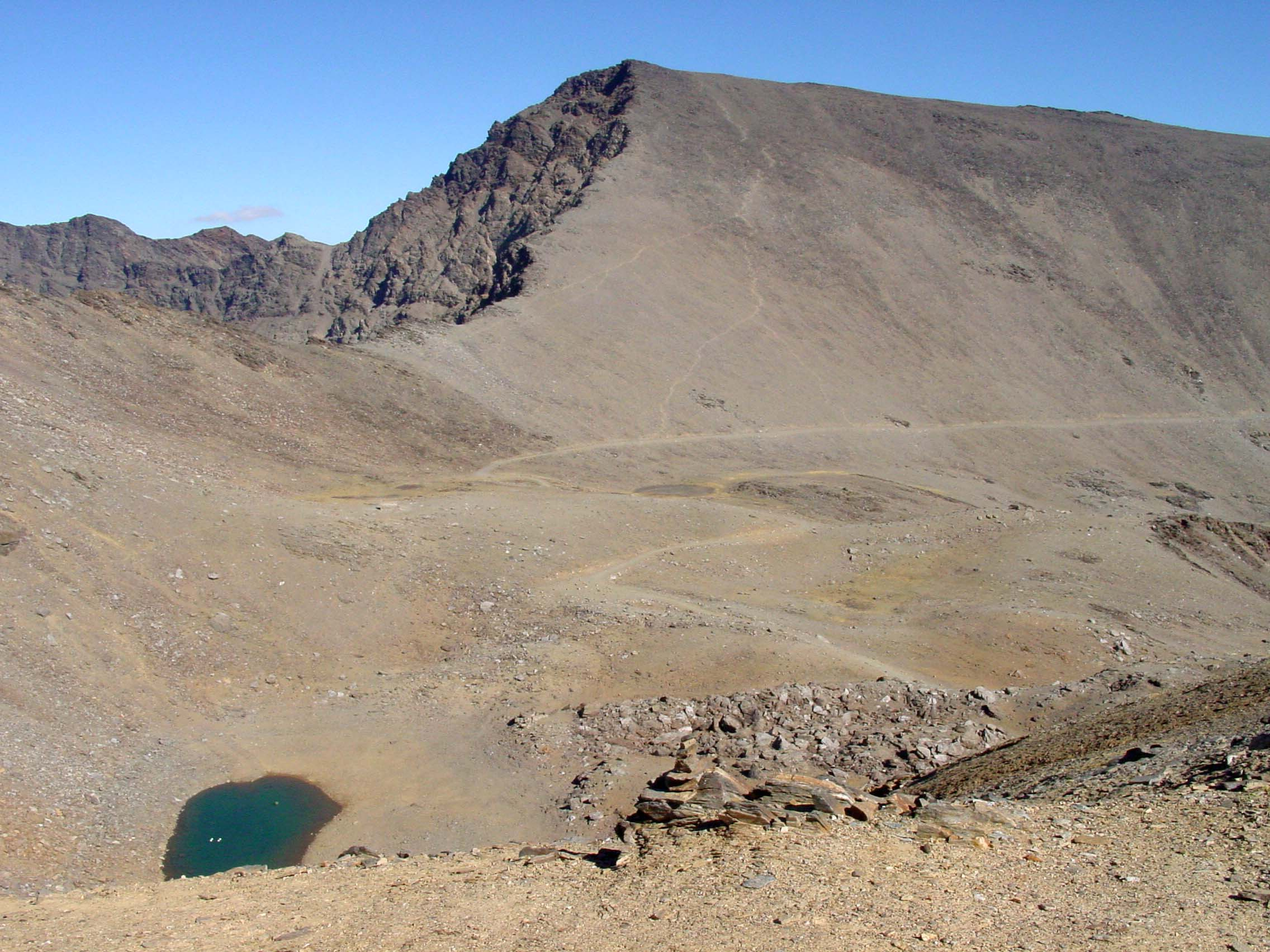 Mulhacén from Punta de Loma Pelada, Sierra Nevada mountains, Spain